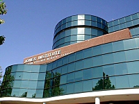 This is the Jones institute on the campus of EVMS. It is a picture taken from the University's webpage at